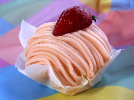 Mont Blanc at Shinsaibashi bakery store at Sogo